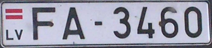 License plate from Latvia until 2004